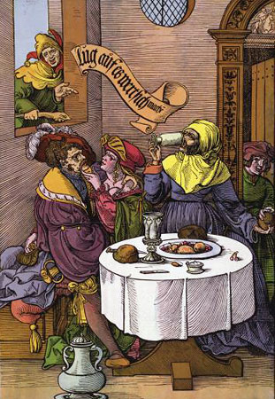 A prostitute in the Middle Ages